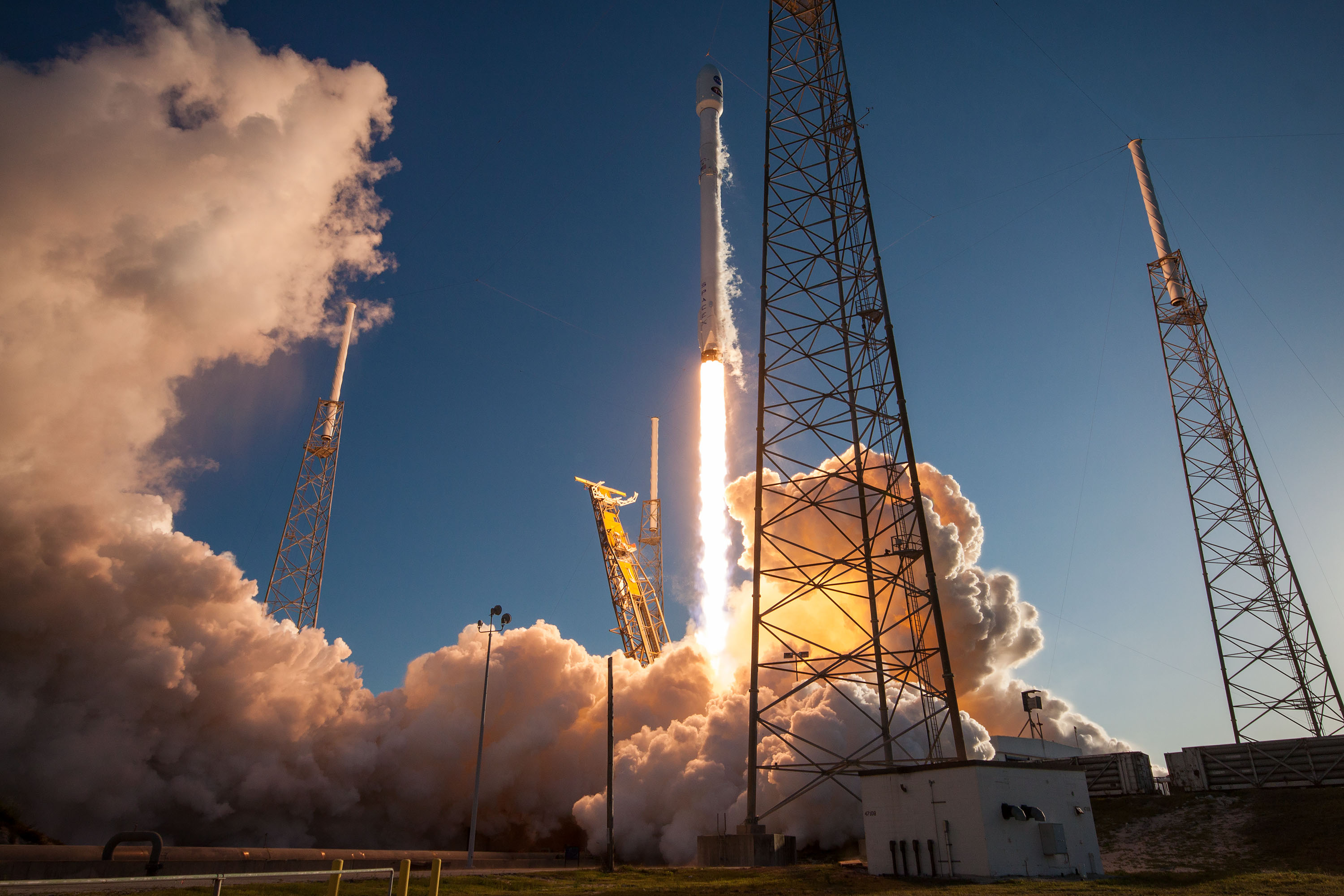 The Falcon 9 rocket carrying TESS, launching from Space Launch Complex 40 at Cape Canaveral, Florida, USA.